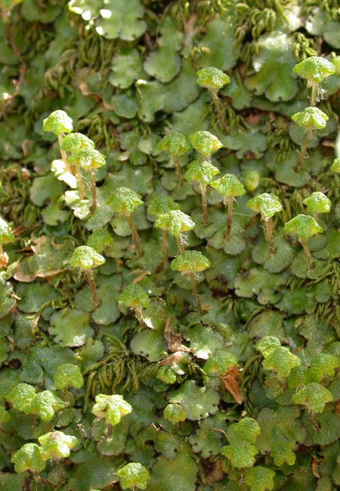 Reboulia hemisphaerica (L.) Raddi, Wadi Yagur, Mount Carmel, Israel, March 21, 2008